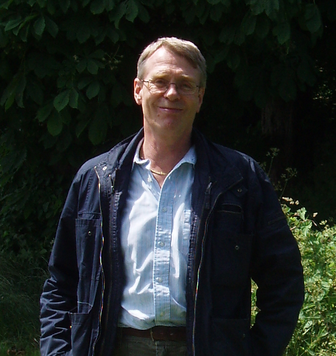 Professor Roger Griffin's photo taken at Oxford Brookes University